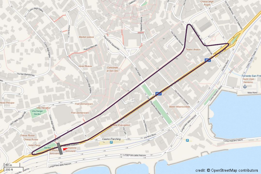 Grand Prix Circuit - San-Remo (Street Map)